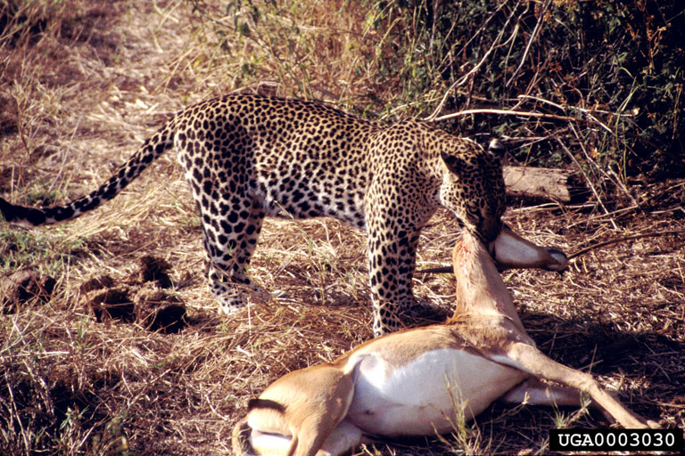 Leopard (Panthera pardus), photographed in Kenya.